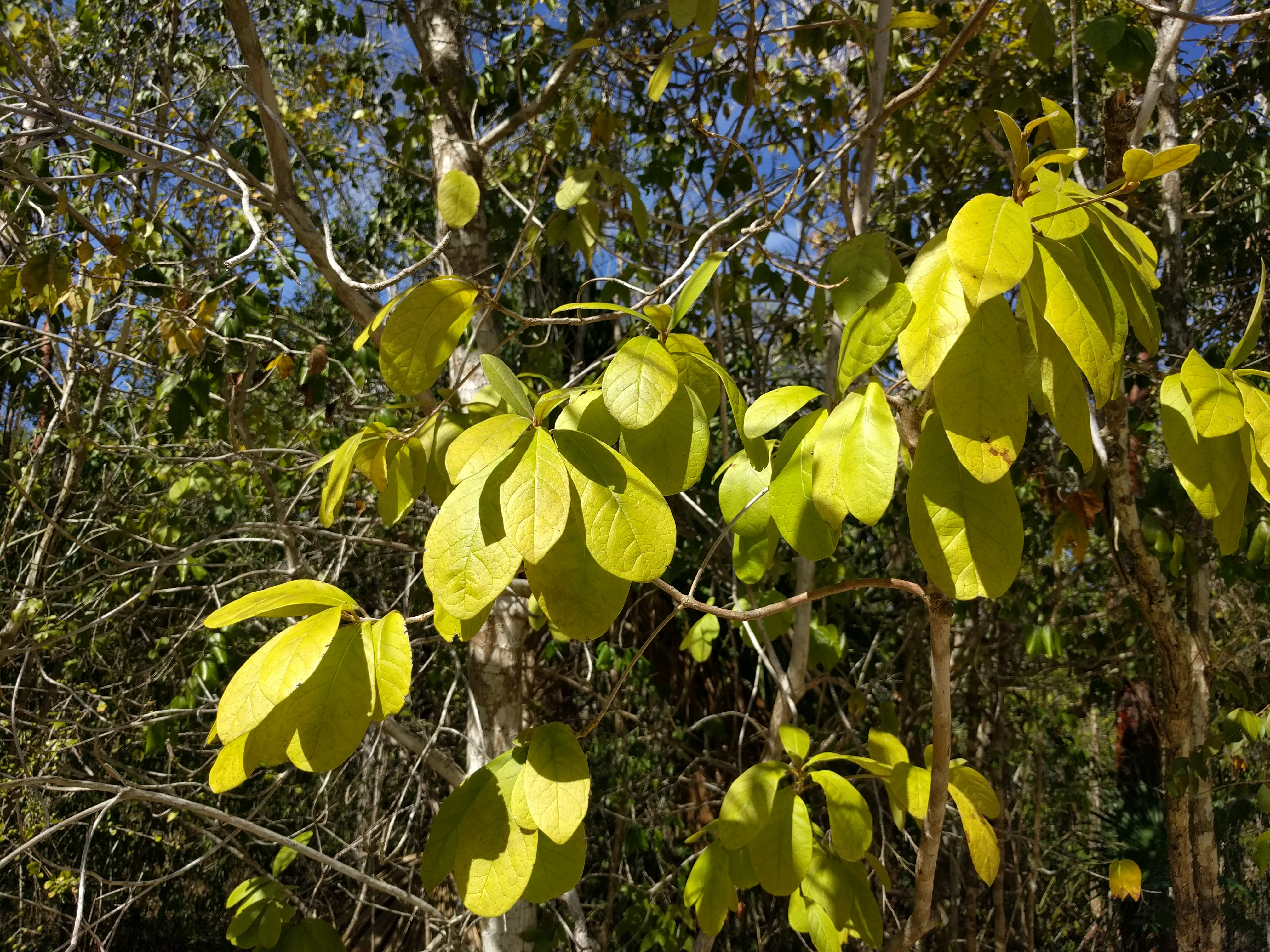 Photo of Terminalia eriostachya at Queen Elizabeth II Botanic Park